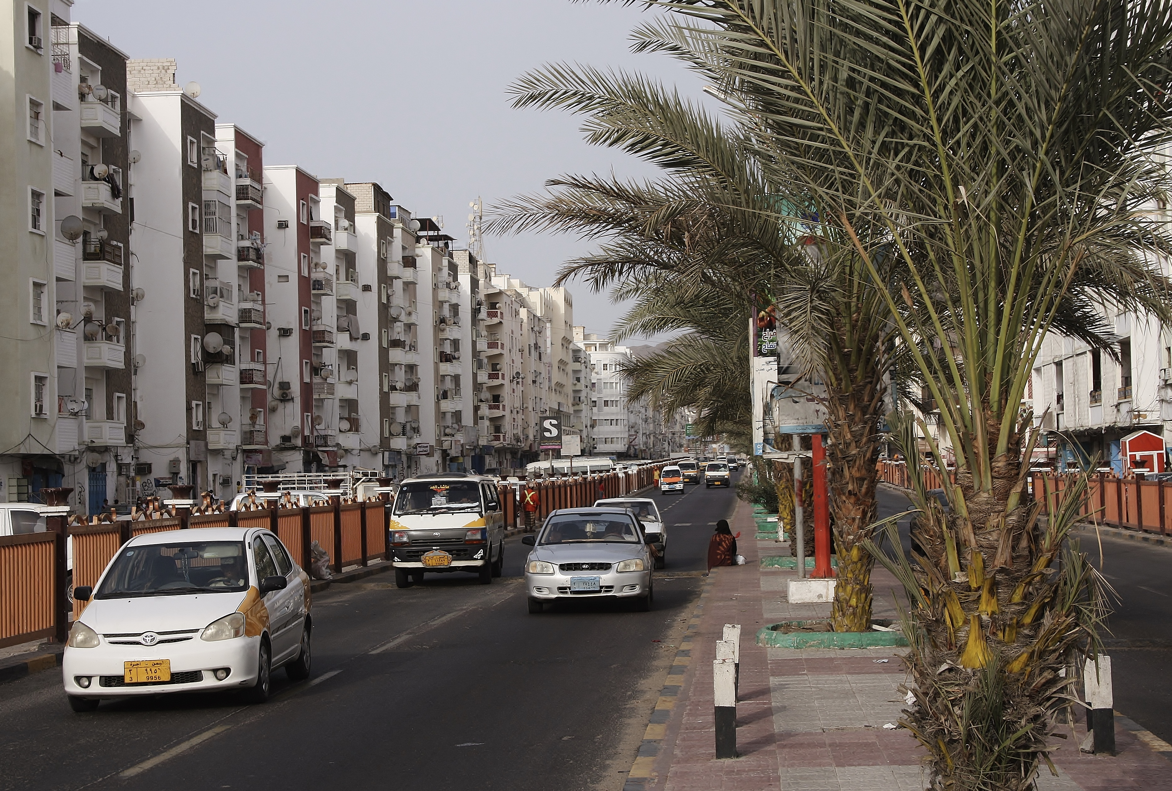 Maala Straight, Aden. Avenue of tall apartment buildings originally built to house the families of British Service personnel.